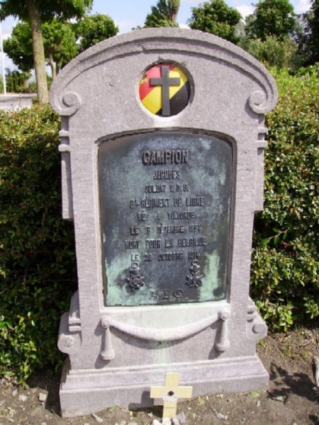 Headstone of Belgian Soldier